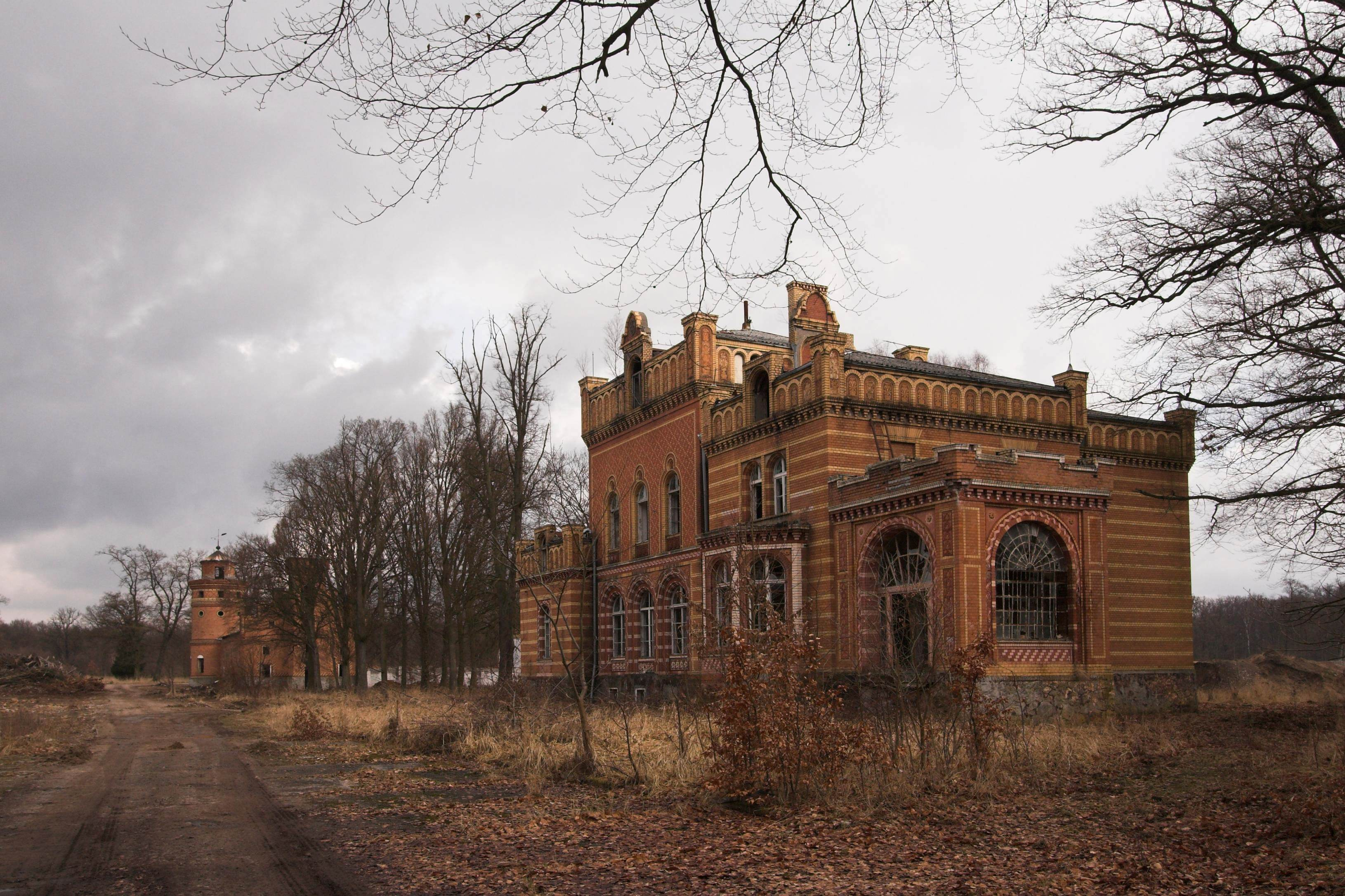 Gentzrode near Neuruppin, manor-house and granary